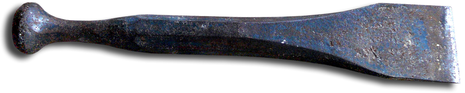 Stone chisel